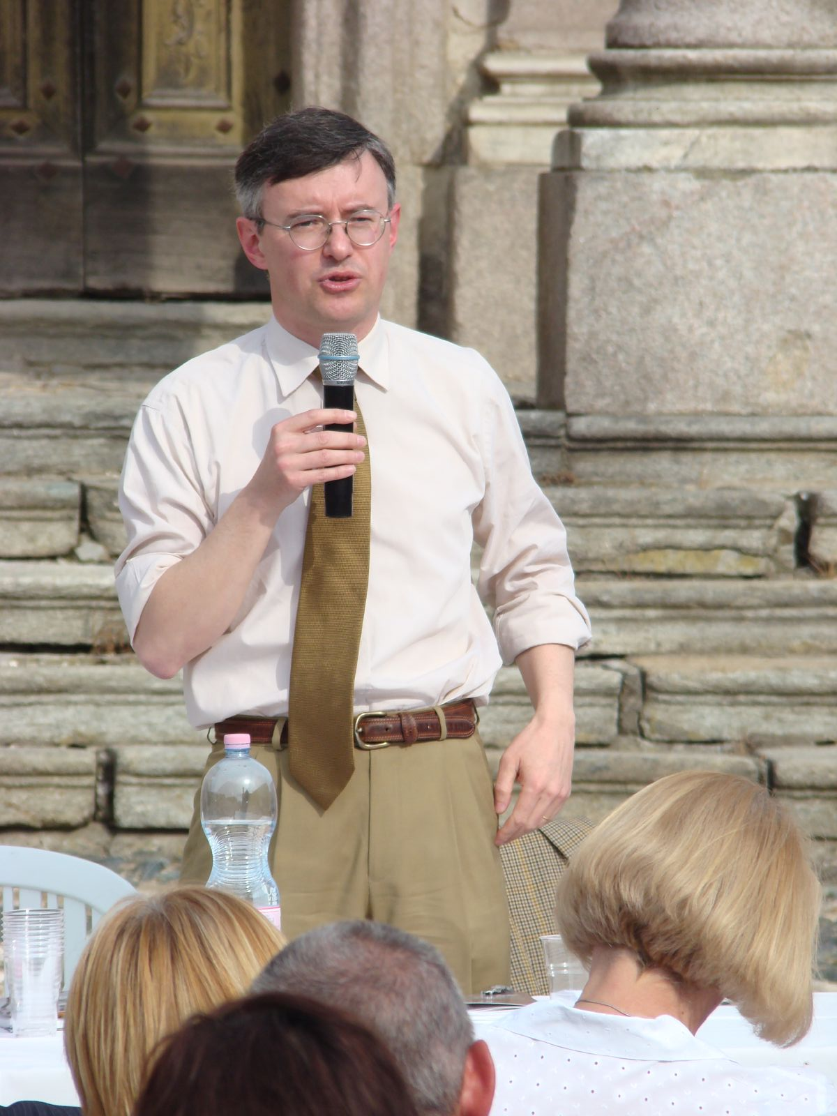 Alessandro Barbero, Italian historian and essayist.